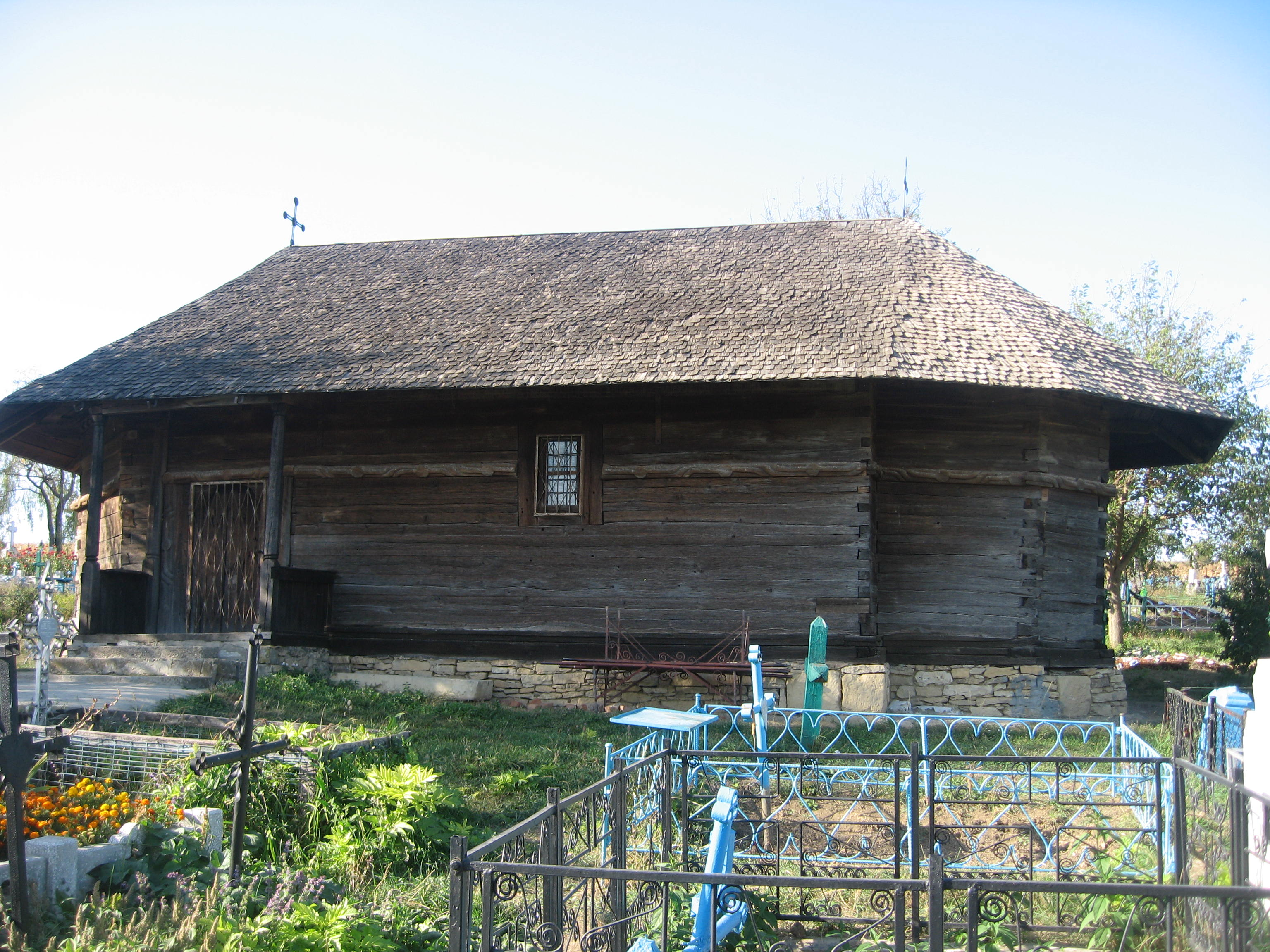 Biserica de lemn din Păuşeşti